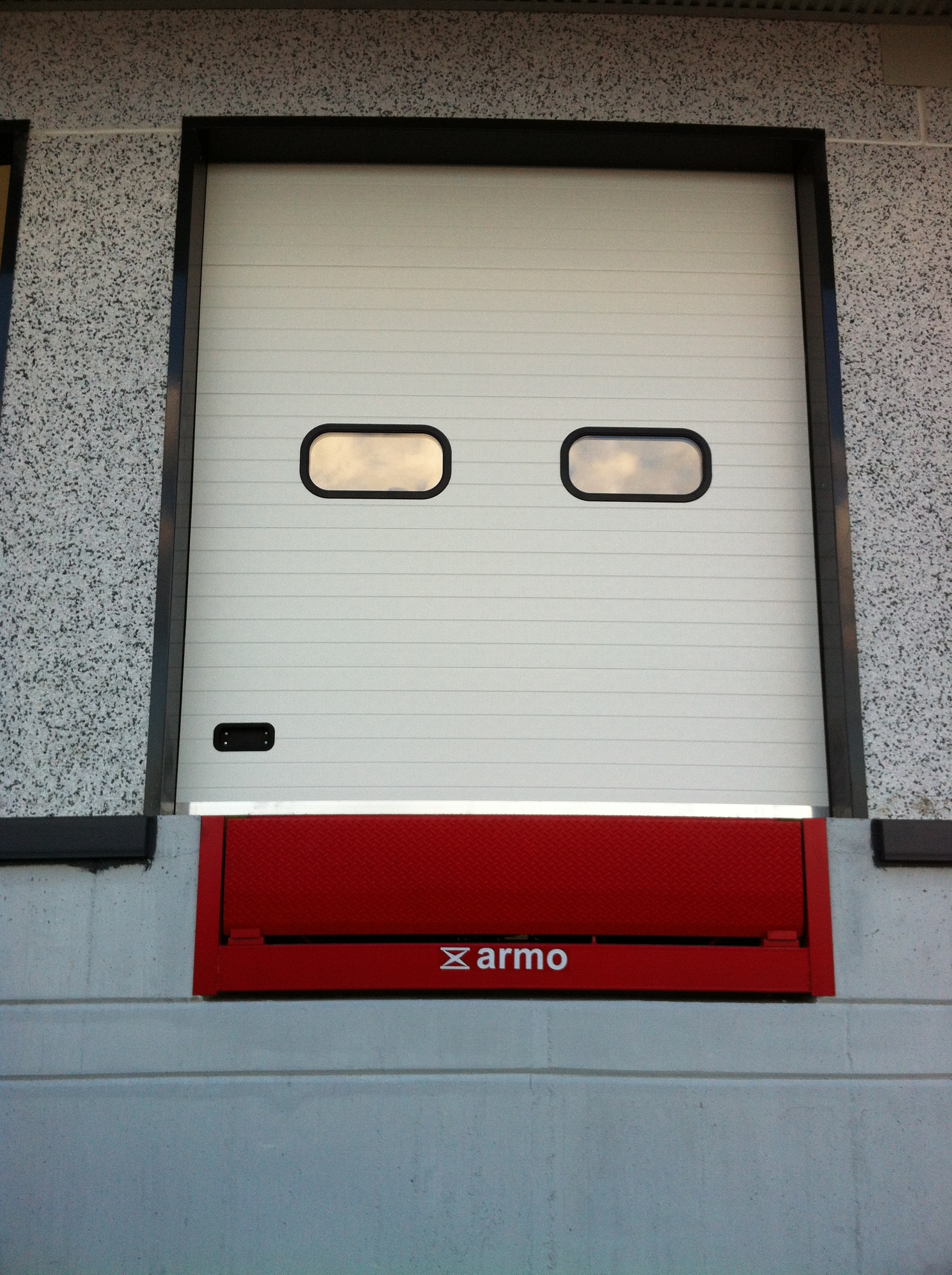 Loading dock with dock plate (dock leveller) and overhead door.